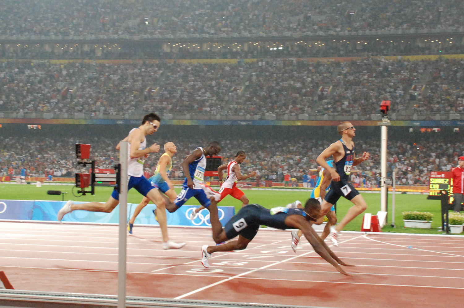 At the 400m final of the Beijing Olympics, David Neville dives for the bronze medal as Jeremy Wariner crosses the finish line, taking second place behind LaShawn Merritt. From left to right: Martyn Rooney, Johan Wissman, Leslie Djhone, Renny Quow, David Neville, Chris Brown, Jeremy Wariner.